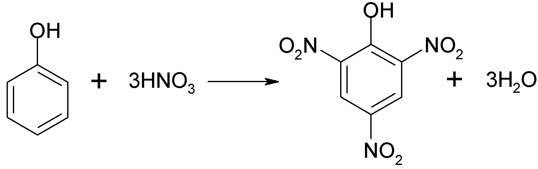 Picric_acid_synthesis